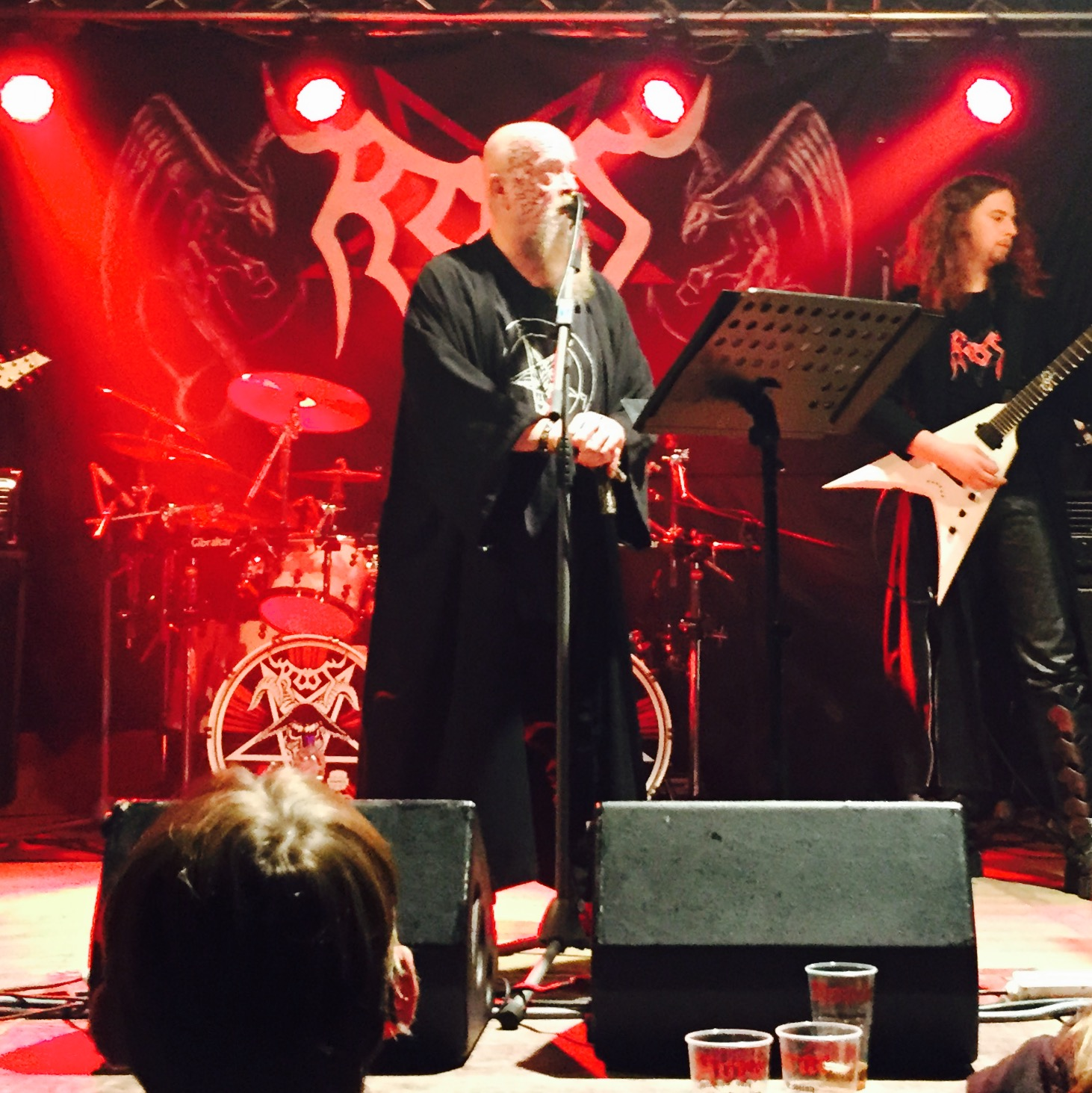 Jiri Valter, Root